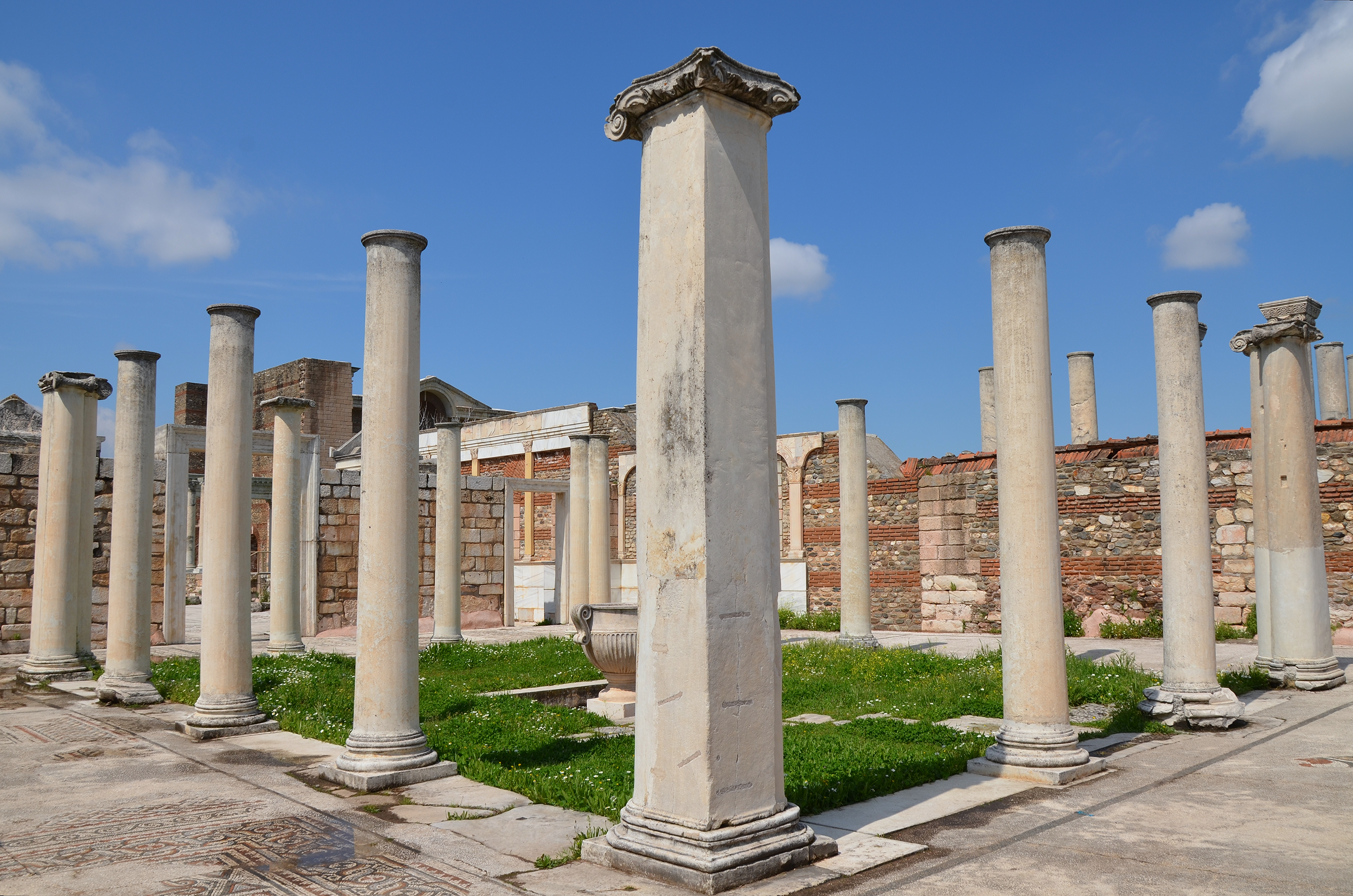 Sardis Synagogue, late 3rd century AD, Sardis, Lydia, Turkey